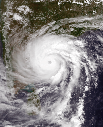 Super Cyclonic Storm BOB 01 on May 8, 1990